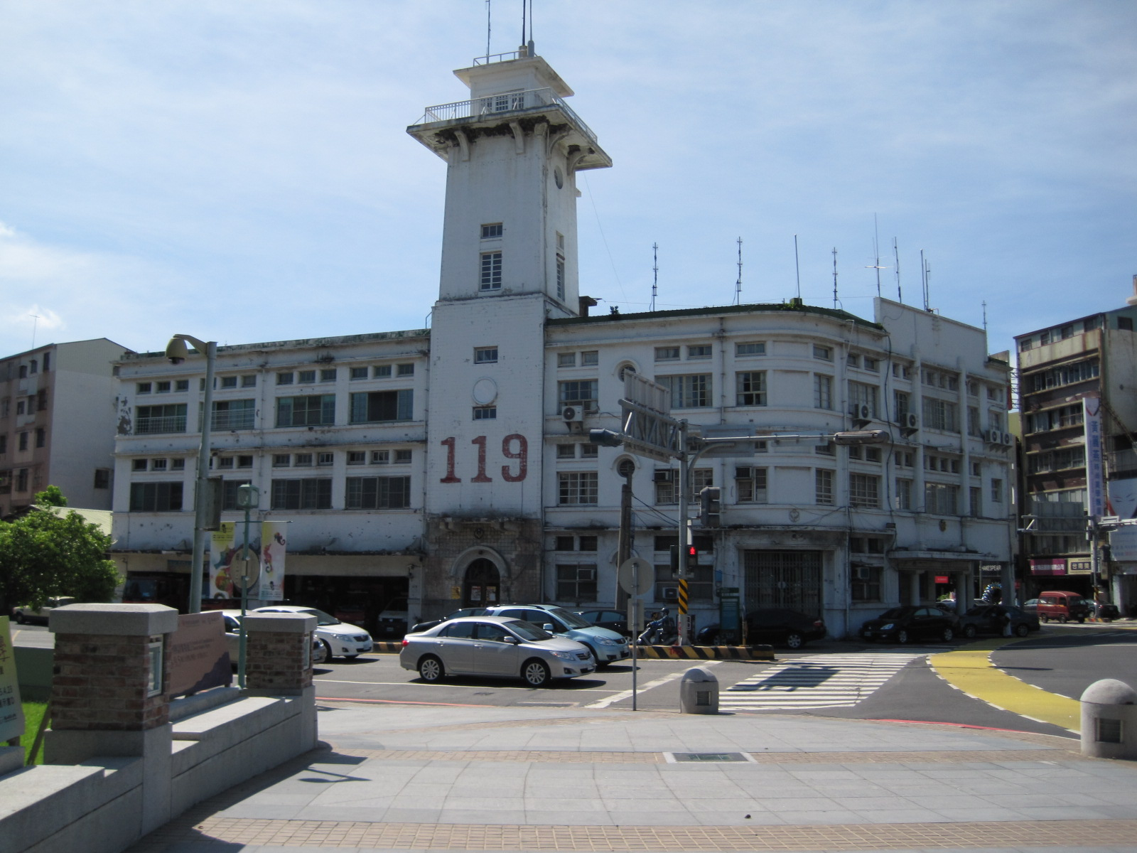 Old Tainan Joint Government Offices